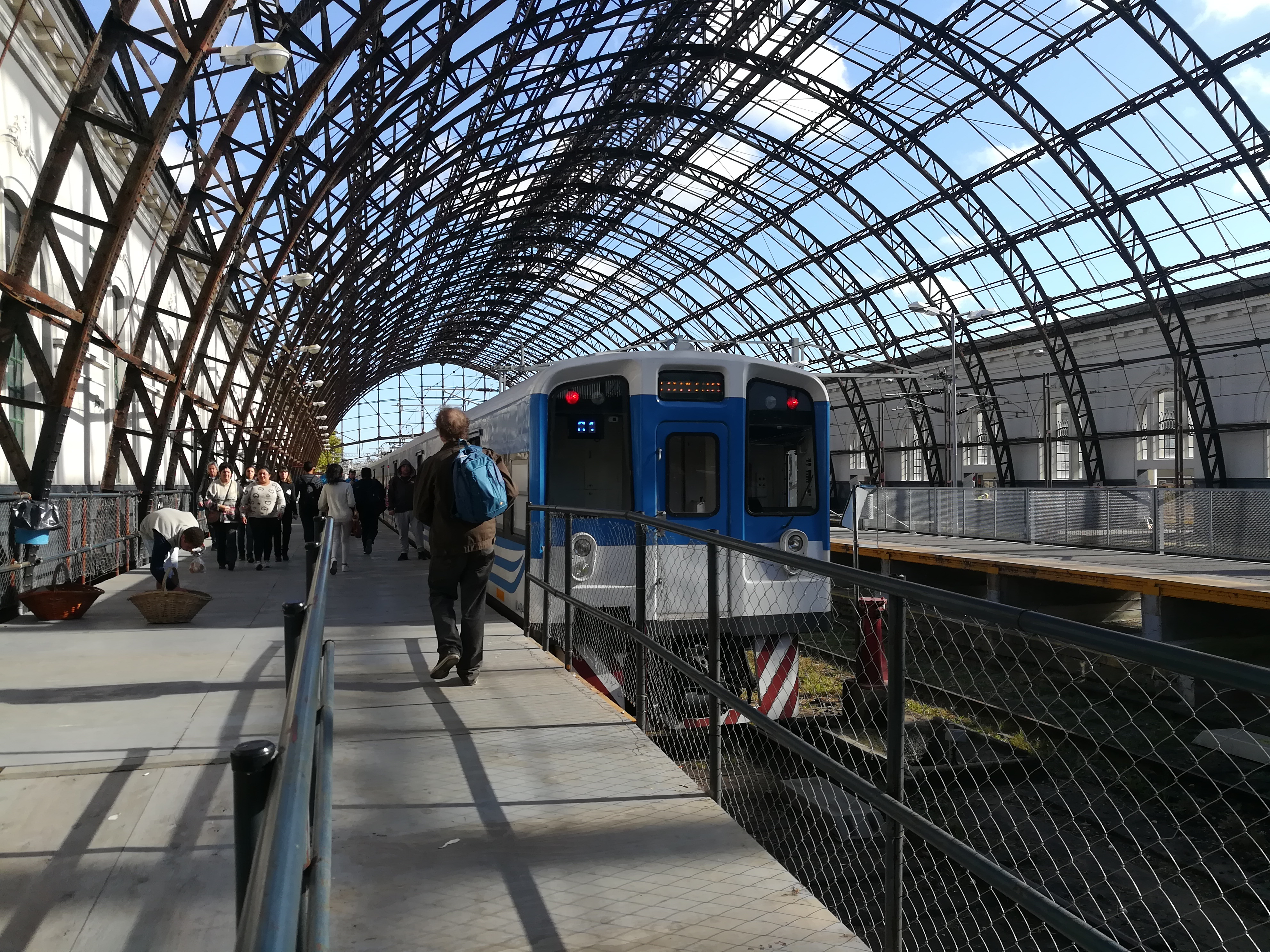 Toshiba EMU from the Roca Line at La Plata Train Station. This trains usually run on the Temperley circuit of the Roca Line.